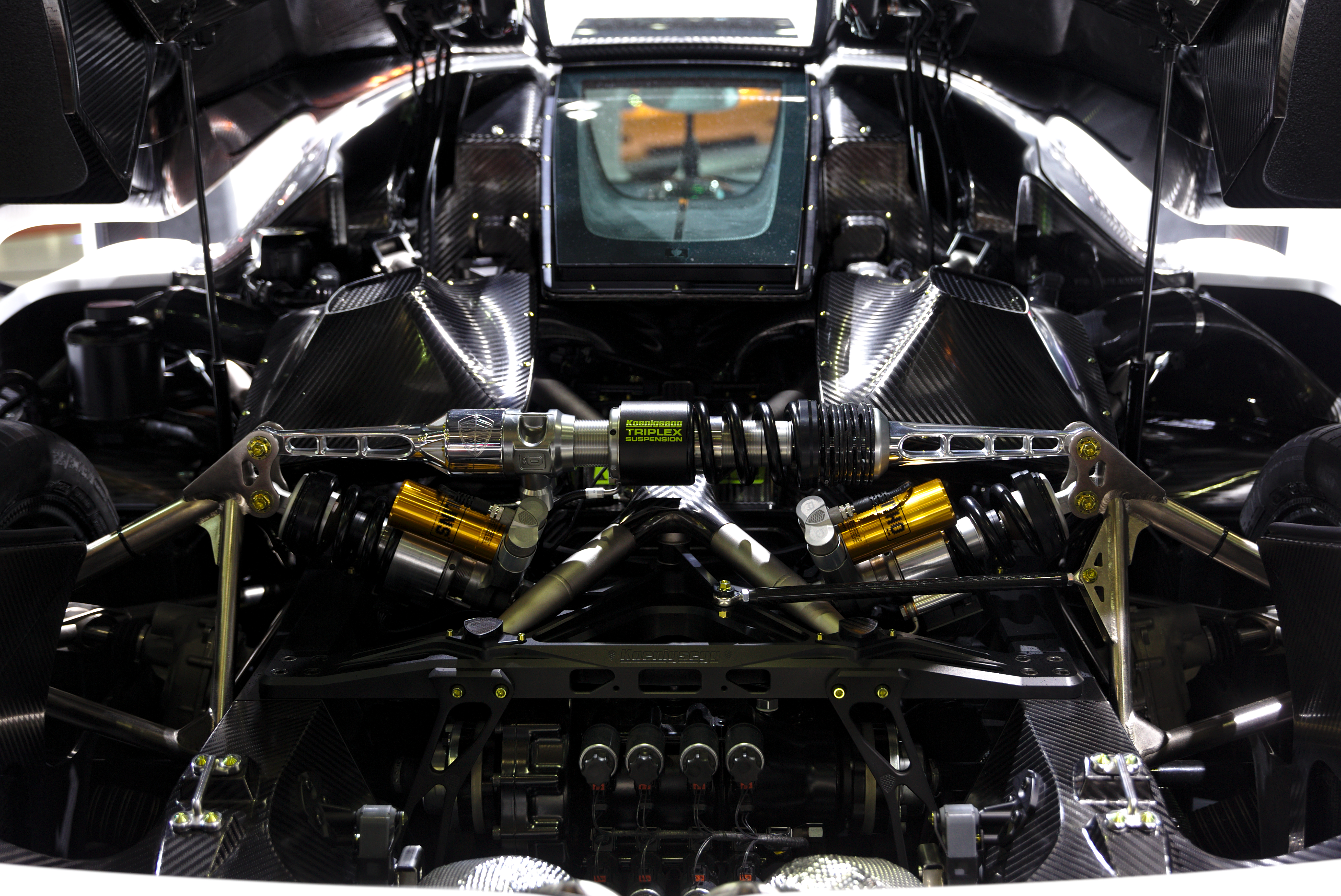 Koenigsegg Jesko at Geneva Motor Show 2019